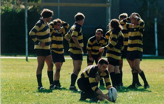 Kevin Swords (far left) in action with Beacon Hill RFC